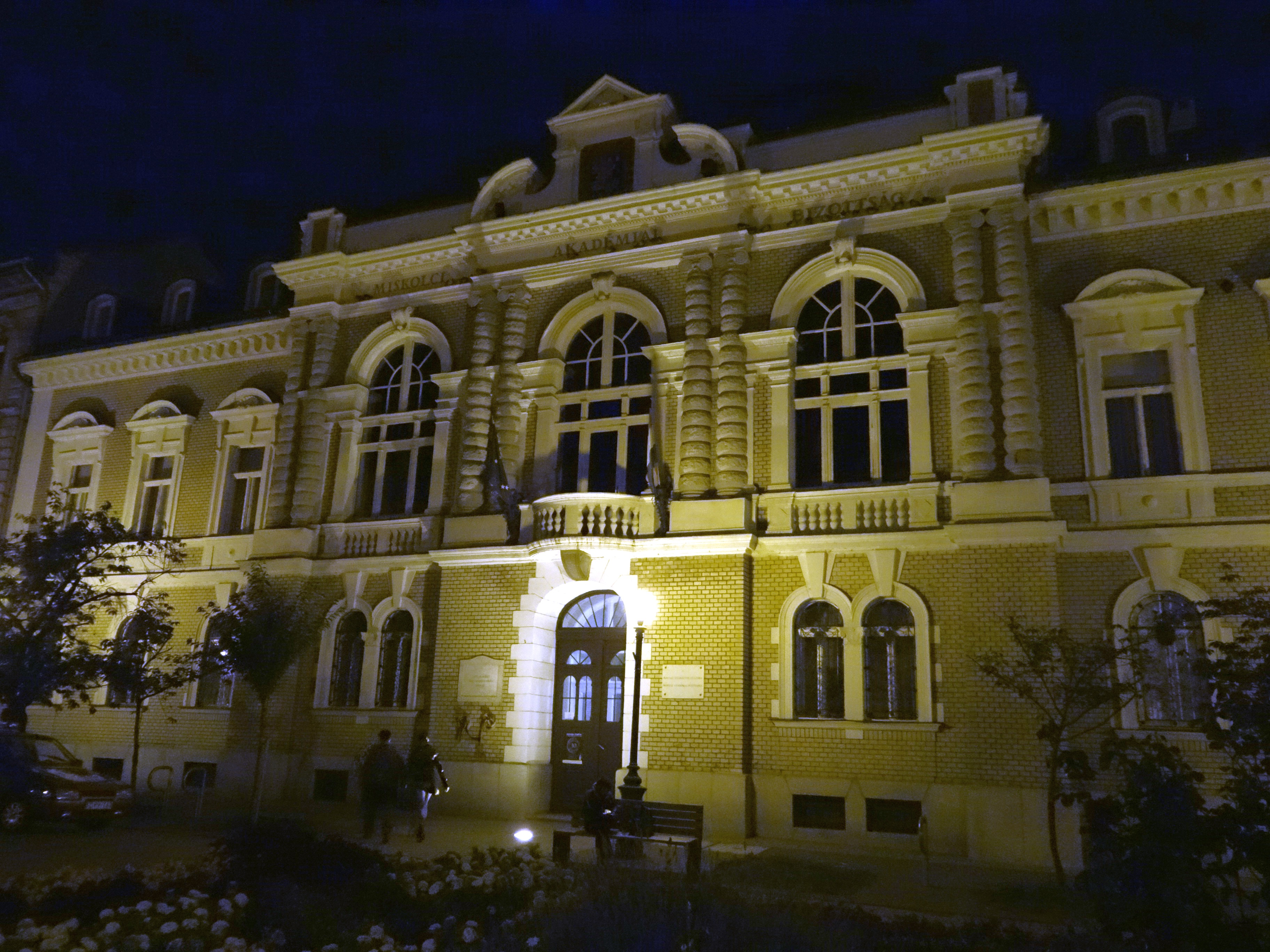 Building of Miskolc Academy Commission, Erzsébet square, Miskolc, Hungary